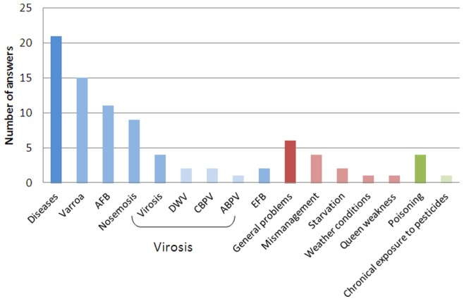 Diseases: non-specified diseases, AFB: American foulbrood, SBV: sacbrood virus, CBPV: Chronic Bee Paralysis Virus, DWV: Deformed Wing Virus, EFB: European foulbrood.